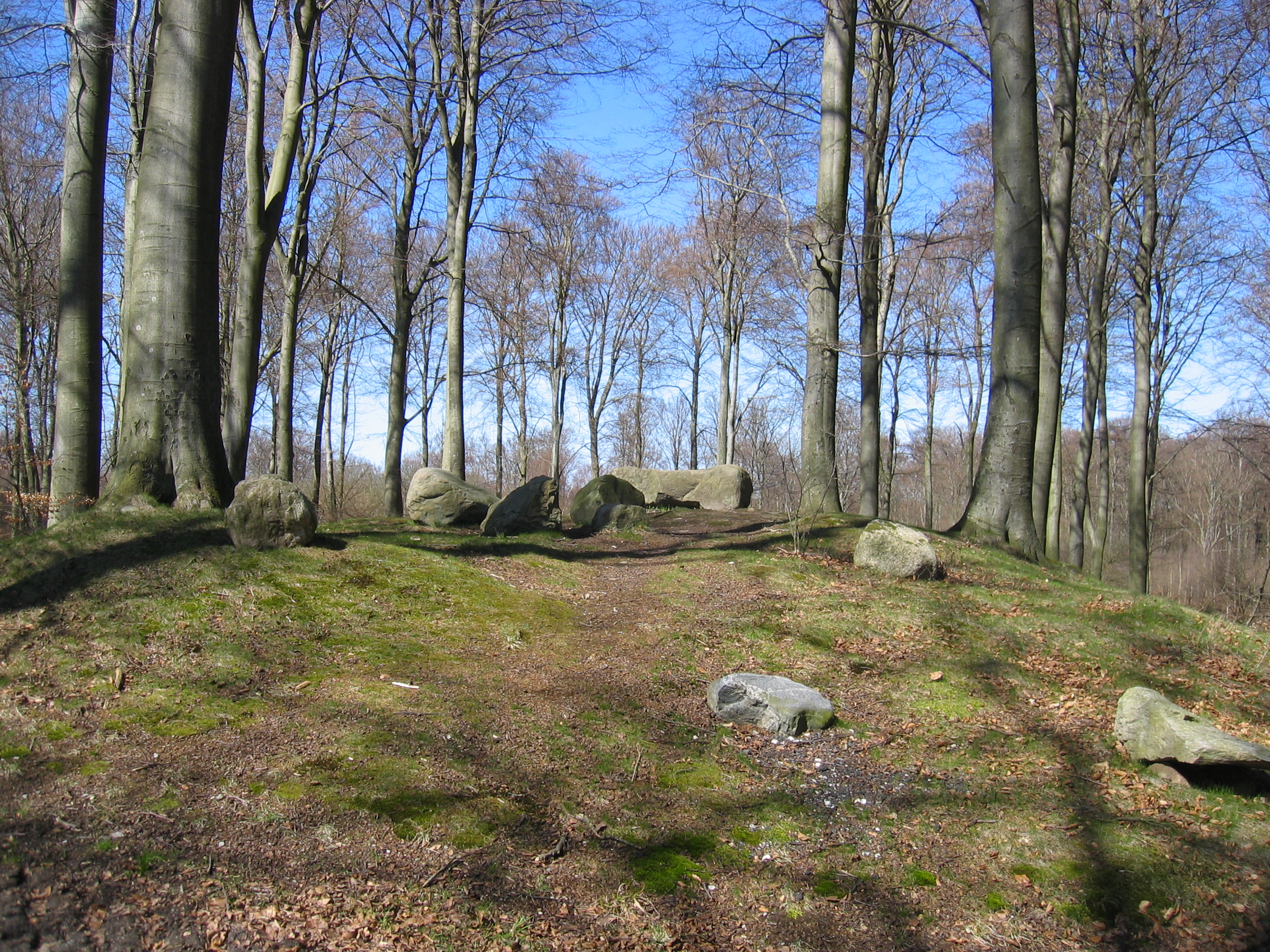 Aggebo Hegn, Valby, Frederiksborg County, Denmark.